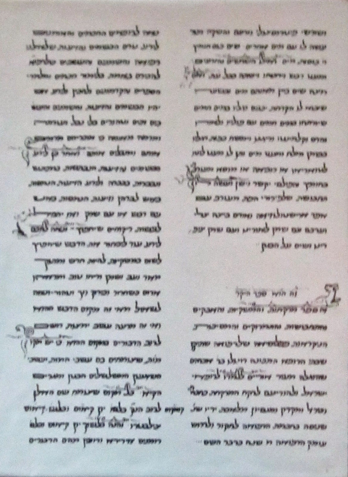 "Sefer Ha Yakar" by Shabbetai Donnolo, medical miscellany manuscript, Italy 13th-14th century